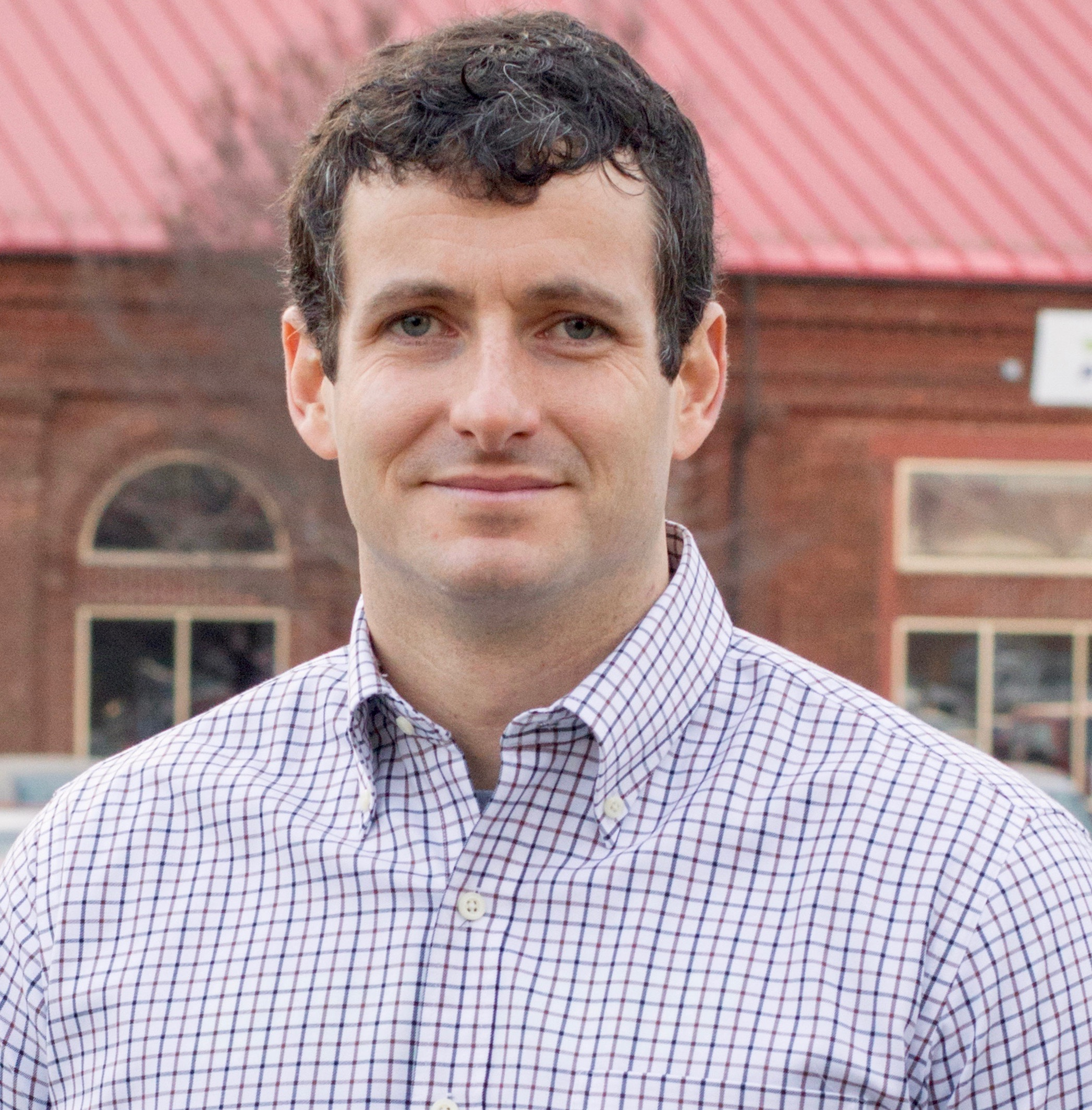 Rep. Trey Hollingsworth official headshot